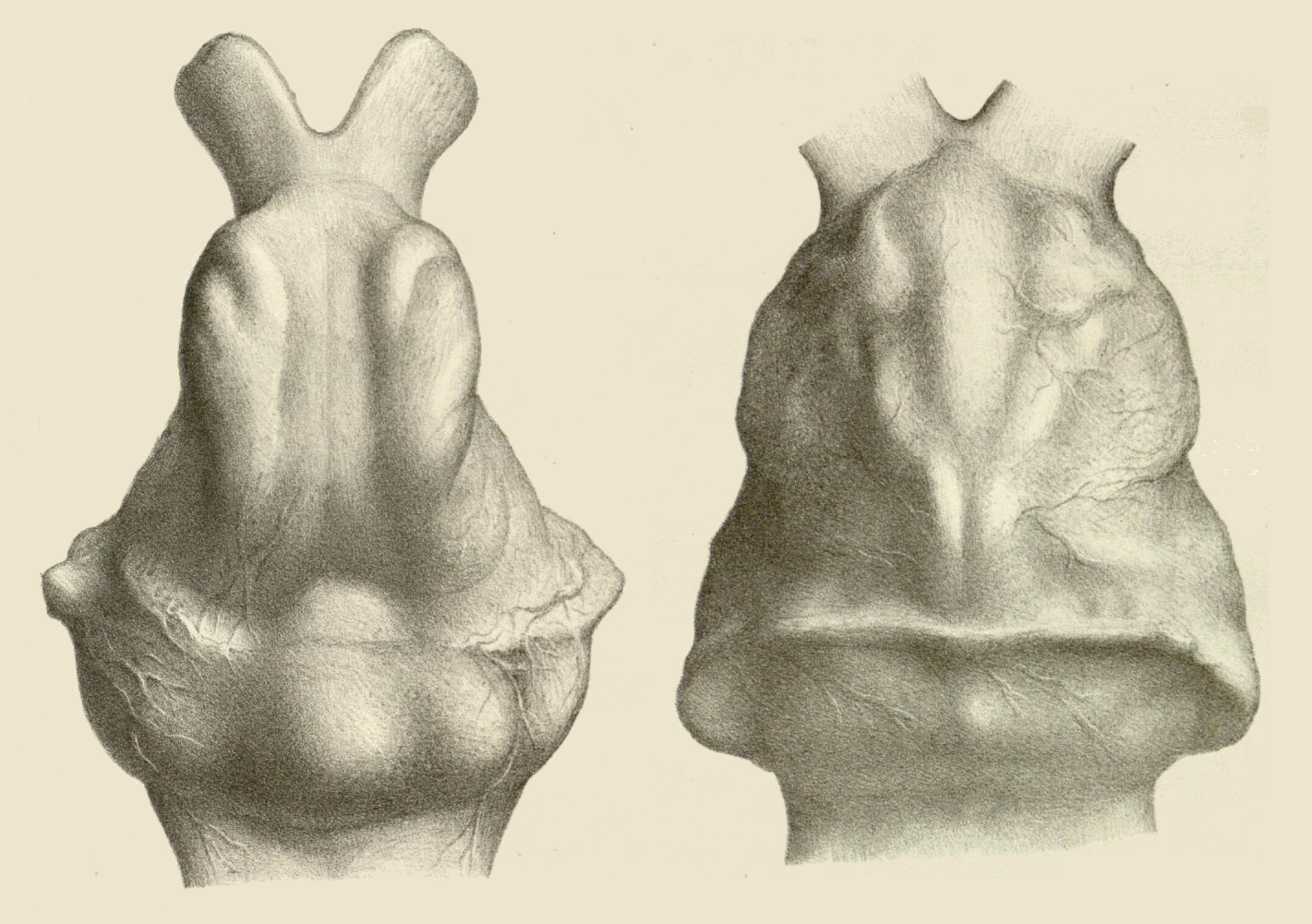 Glyptodontidae, brain endocasts of glyptodonts, left Glyptodon, right Doedicurus